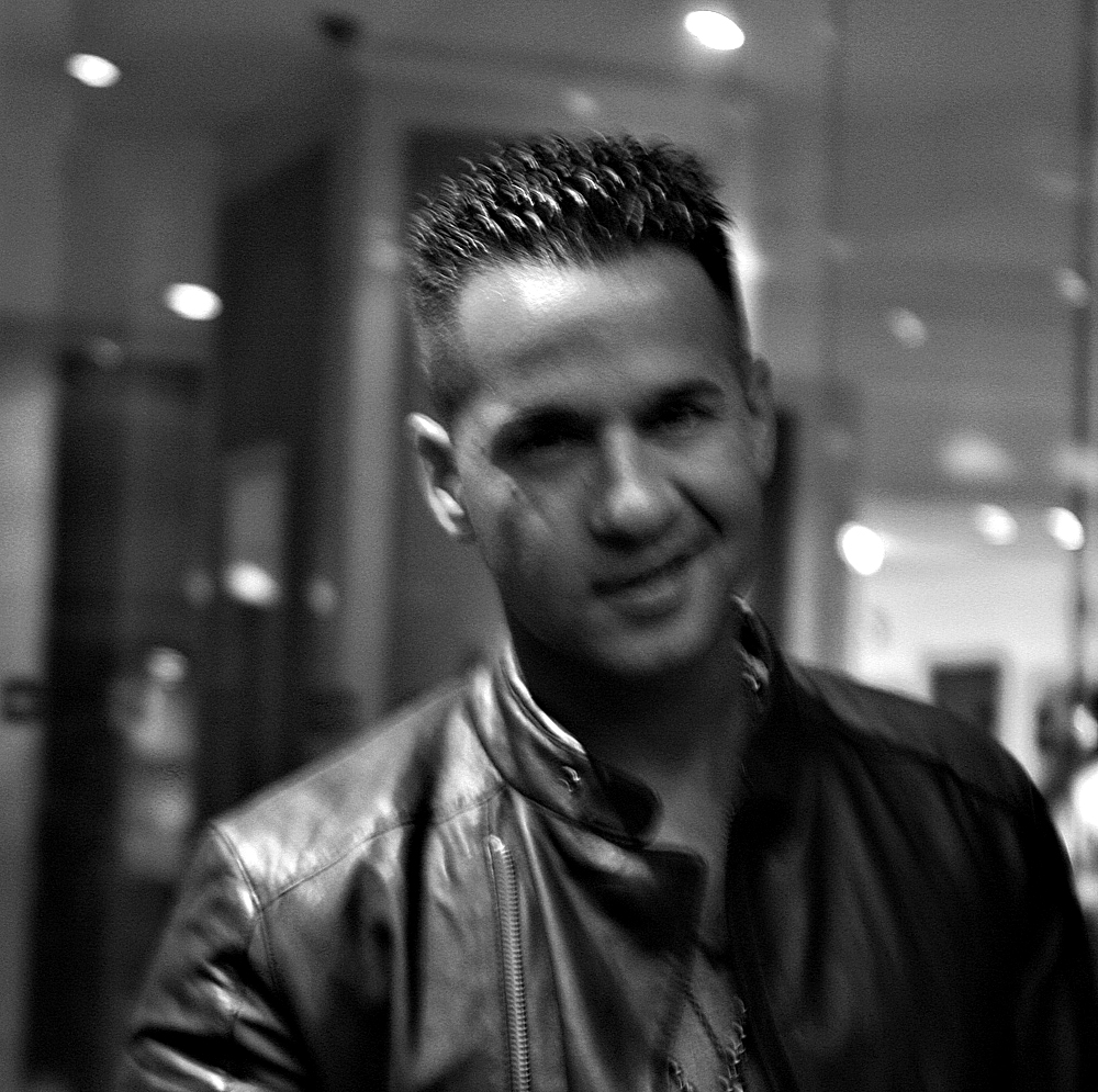 Michael Sorrentino AKA Mike The Situation from MTV’s “Jersey Shore,” will be making his first-ever trip to Australia this month, appearing at nightclubs in Sydney, Melbourne and the Gold Coast to meet his Australian fans. Season 4 of “Jersey Shore” was the most watched series ever on MTV Australia, with the premiere episode earning highest debut for any show in the channel’s history. Season 5 finds the housemates back on their home turf of Seaside Heights – where all the fist-pumping magic began and a pop culture phenomenon was born — and premieres on MTV Australia on Wednesday, 21 March.